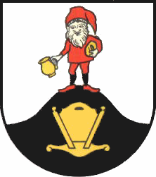 Coat of Arms of Dalldorf